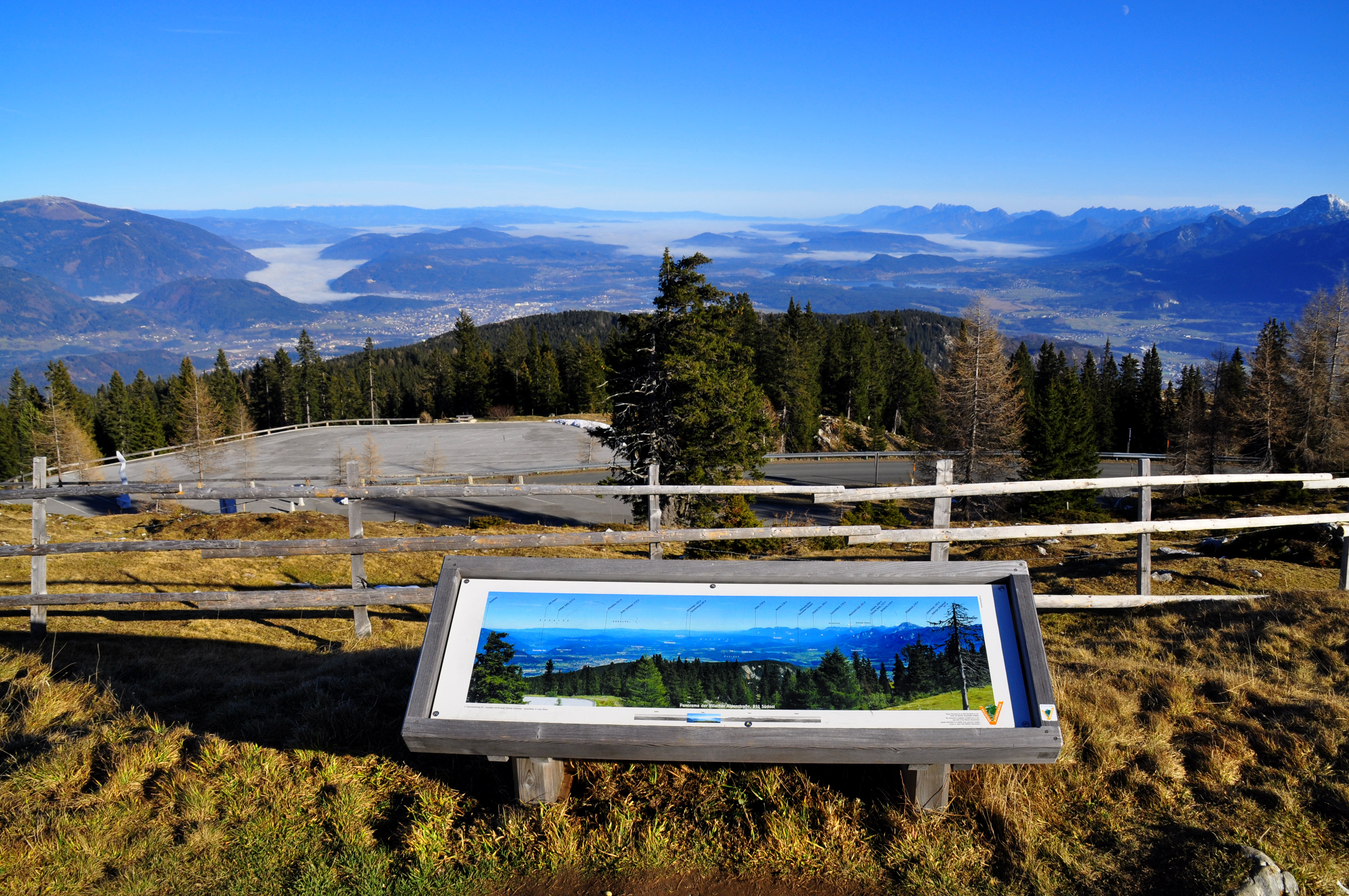 View from the Dobratsch mountain at the Klagenfurter Becken, district Villach-Land, Carinthia, Austria